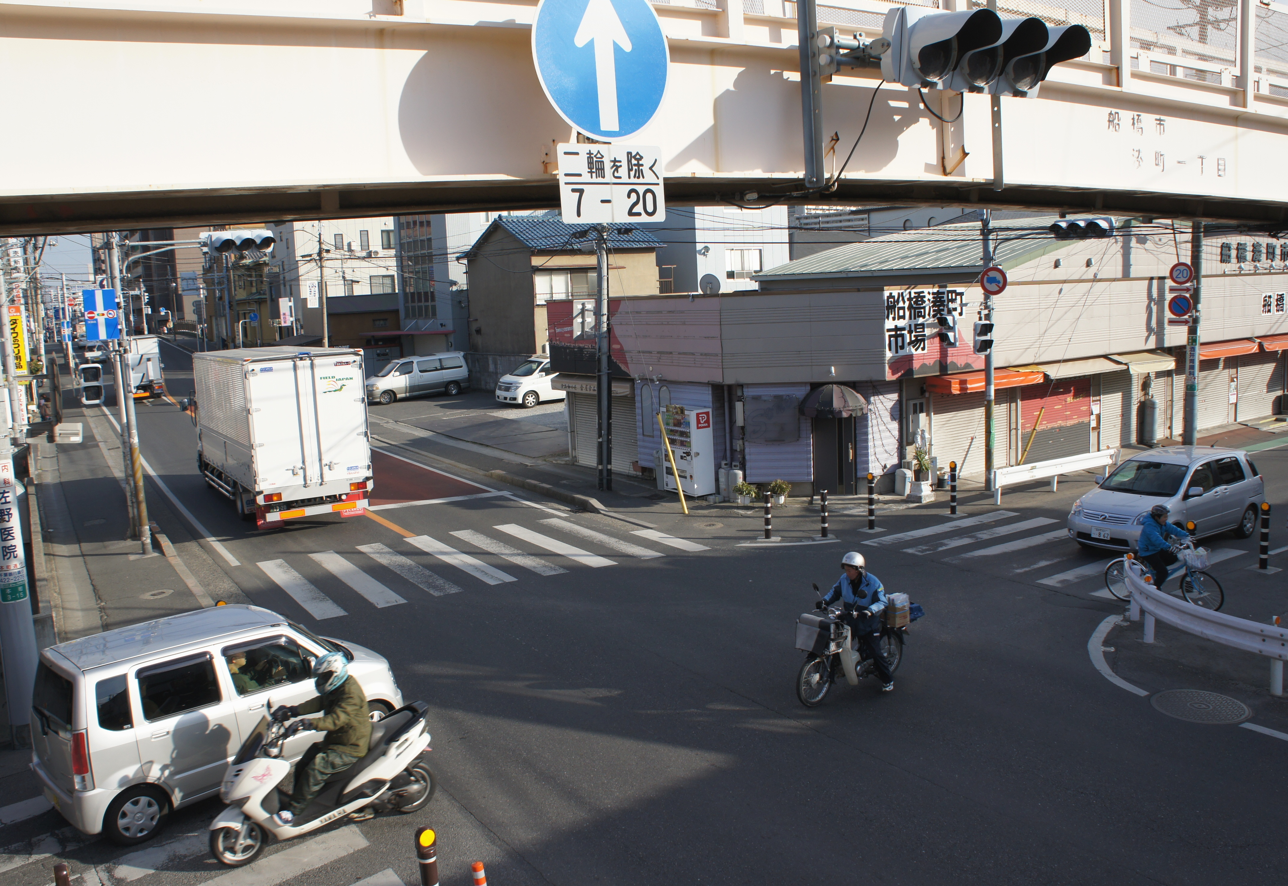 A crossing at Funabashi, Chiba. The all signals are gone off due to the rolling black out after the 2011 Tohoku earthquake.